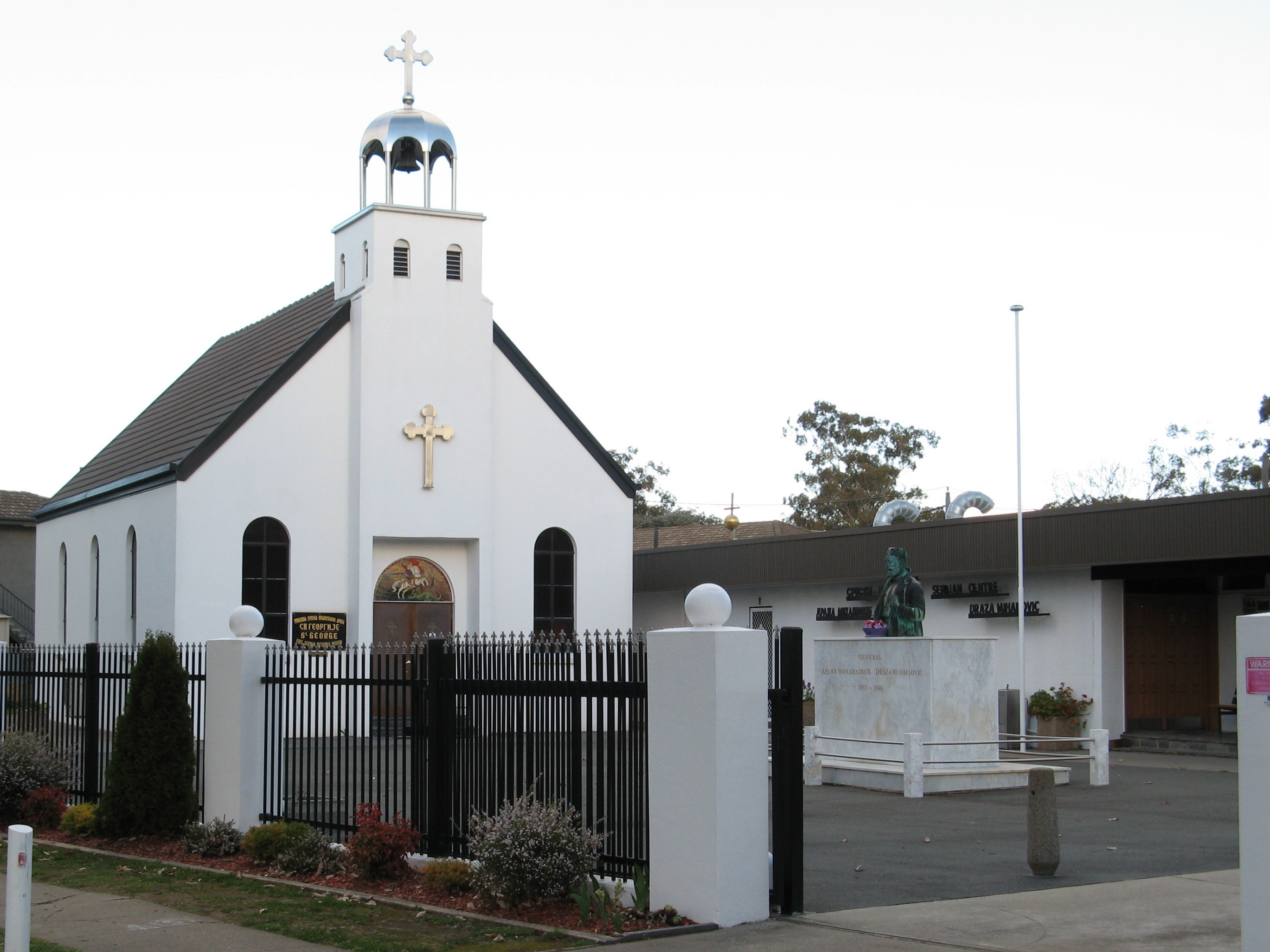 32-34 National Circuit, Canberra, ACT, Australia The photograph also includes the "Serbian Centre Draza Mihailovic" building behind the church